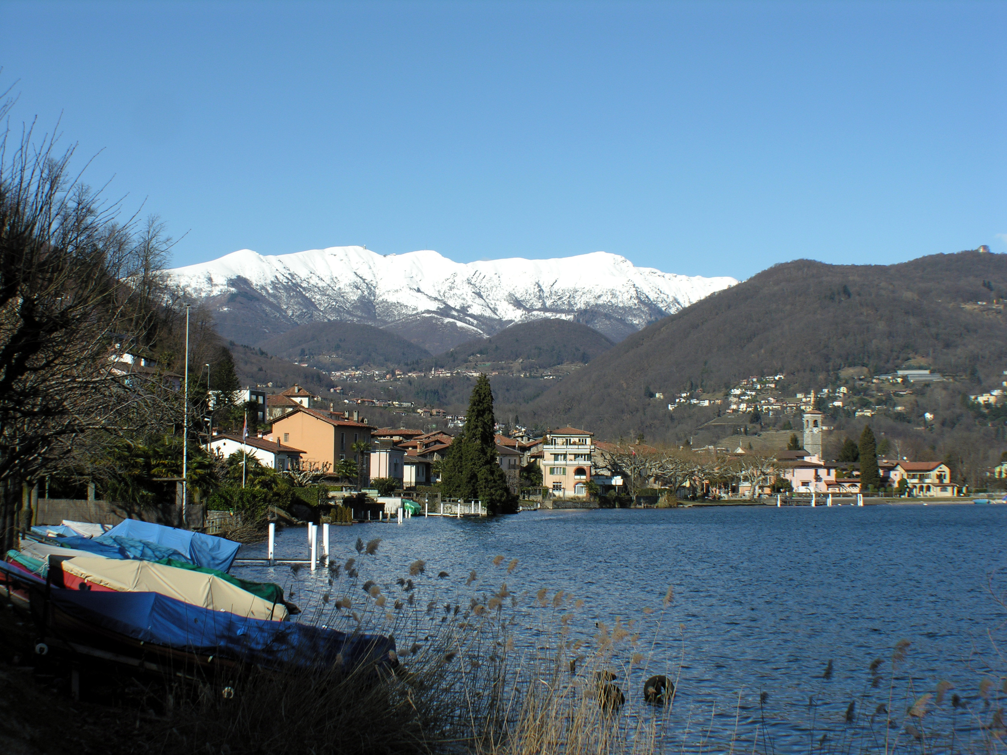 Caslano, Tessin, Switzerland - Downtown. In the background Monte Lema (1621 m) and Poncione di Breno (1653 m)